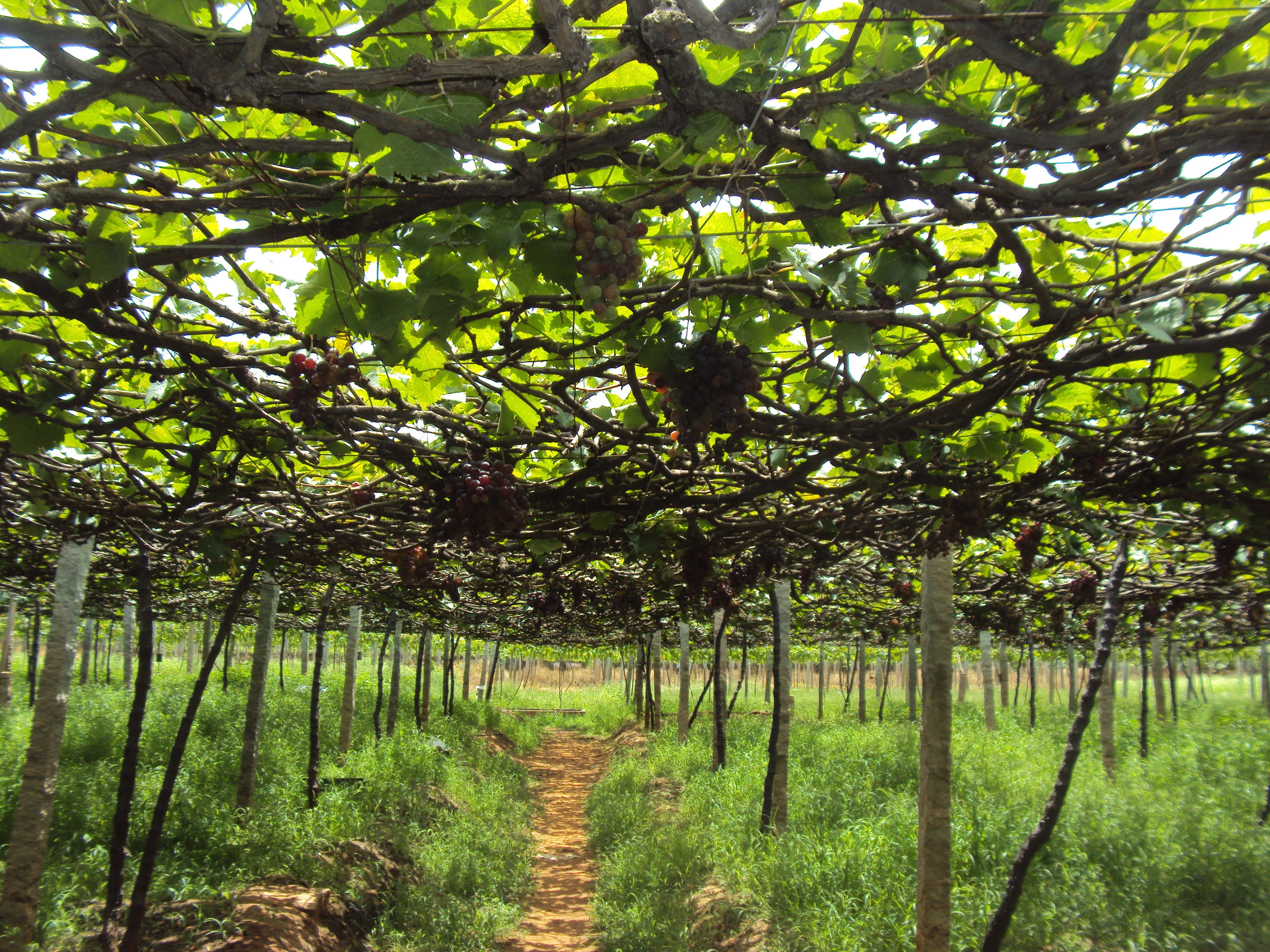 Grape Field